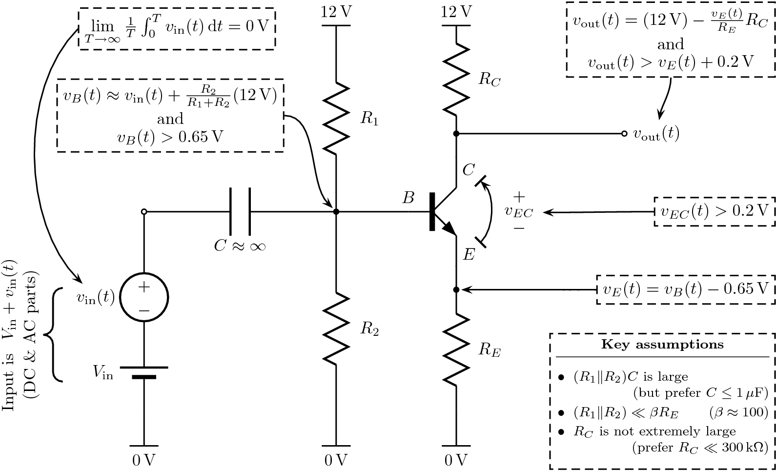 Annotated schematic of a common-emitter amplifier shown in a typical configuration. Includes input AC coupling and guidelines on robust component choices. Assumes base-emitter drop of npn bipolar transistor is 0.65 Volts.